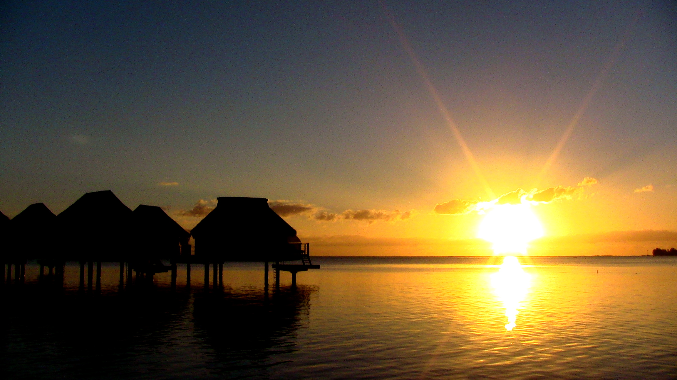 A classic Tahitian sunrise - 28 June, 2012